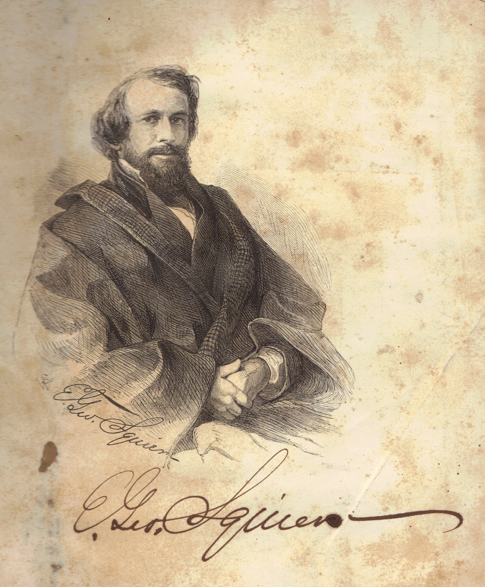 Print by CW of Ephraim George Squier, signed by Squier and presented to N W Bell c. 1870 - 1880